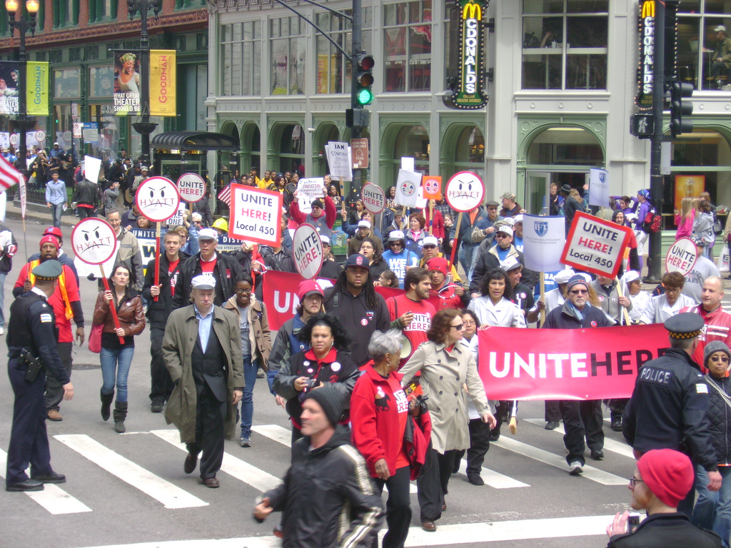 Taken by at Chicago We Are One rally, 4/9/11.